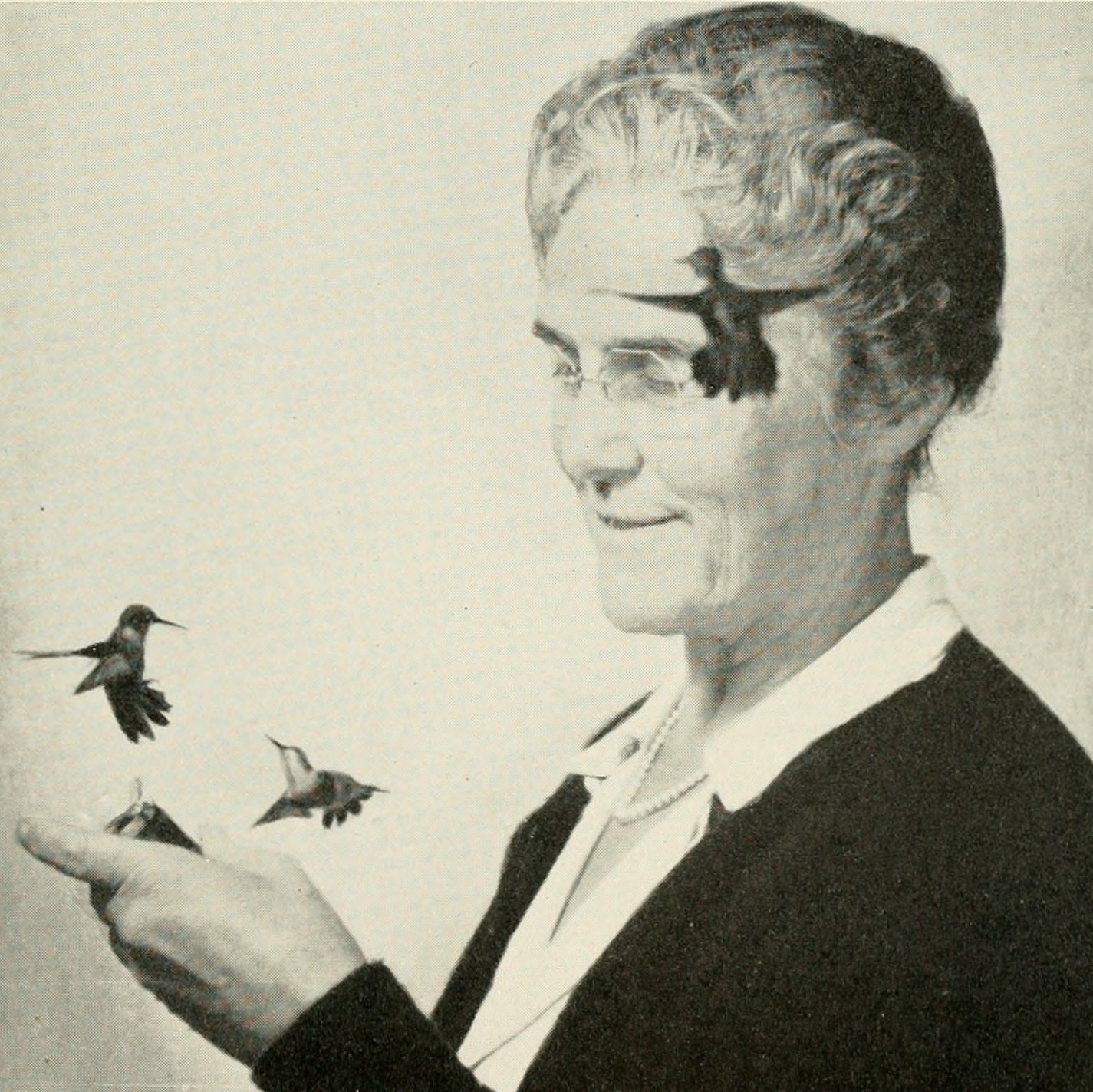 Title: Bulletin - United States National Museum Year: 1877 (1870s) Authors: United States National Museum; Smithsonian Institution; United States. Dept. of the Interior Subjects: Science Publisher: Washington : Smithsonian Institution Press, (etc. ); for sale by the Supt. of Docs. , U. S. Govt Print. Off. Text Appearing Before Image: U. S. NATIONAL MUSEUM BULLETIN 176 PLATE 55 Text Appearing After Image: Holderiifss, N. 1 H. K. Edgerton. Mrs. Laurence J. Webster and her pets. Ruby-throated Hummingbirds.